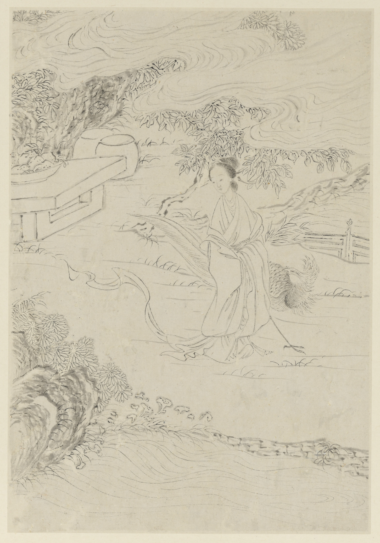 This depicts the deity Xi Wangmu (西王母).